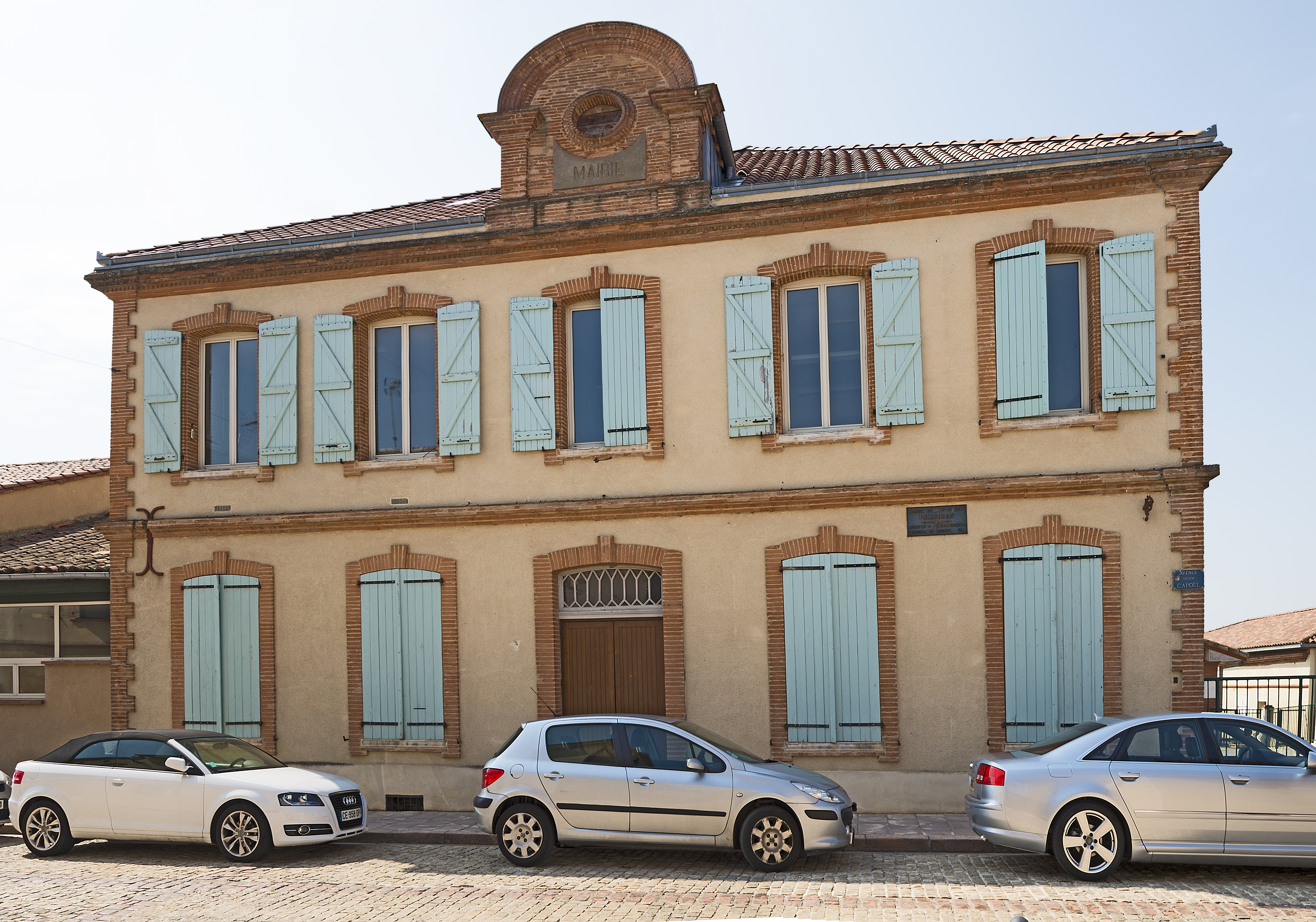 Pujaudran. The facade of town hall.